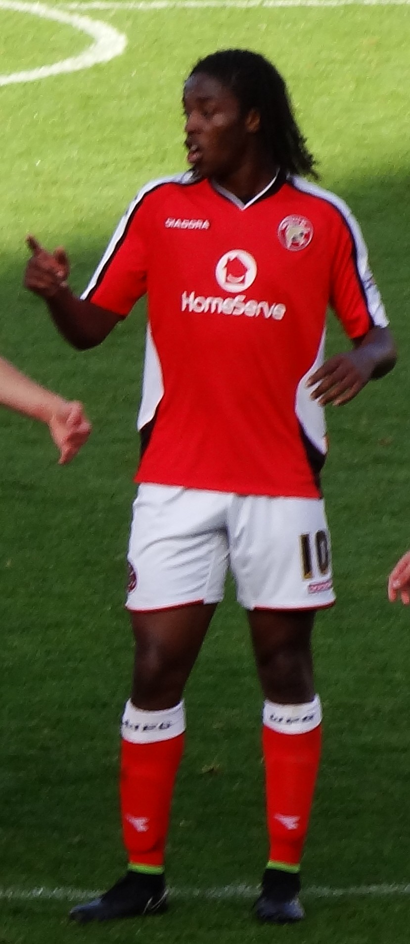 Walsall v Chesterfield, League One, 25 October 2014